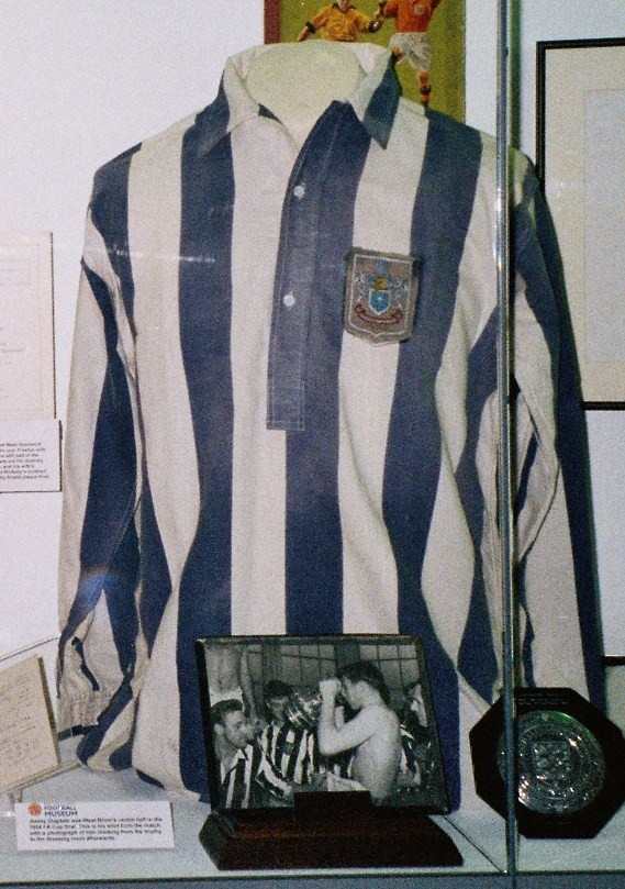 Memorabilia from the 1954 FA Cup Final, exhibited at the National Football Museum in Preston. Among the items on display is a West Bromwich Albion F.C. shirt and a photograph of the winning Albion team.